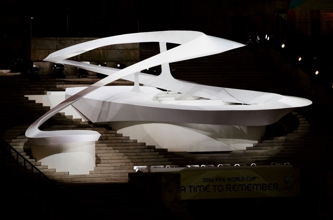 Closing Ceremony 2006 FIFA World Cup, Show Stage, Berlin Olympic Stadium. Photo by Emanuel Raab, courtesy of 3deluxe. – In addition to the fluent contouring its light and elegant look can be ascribed to the characteristics of the textile material.